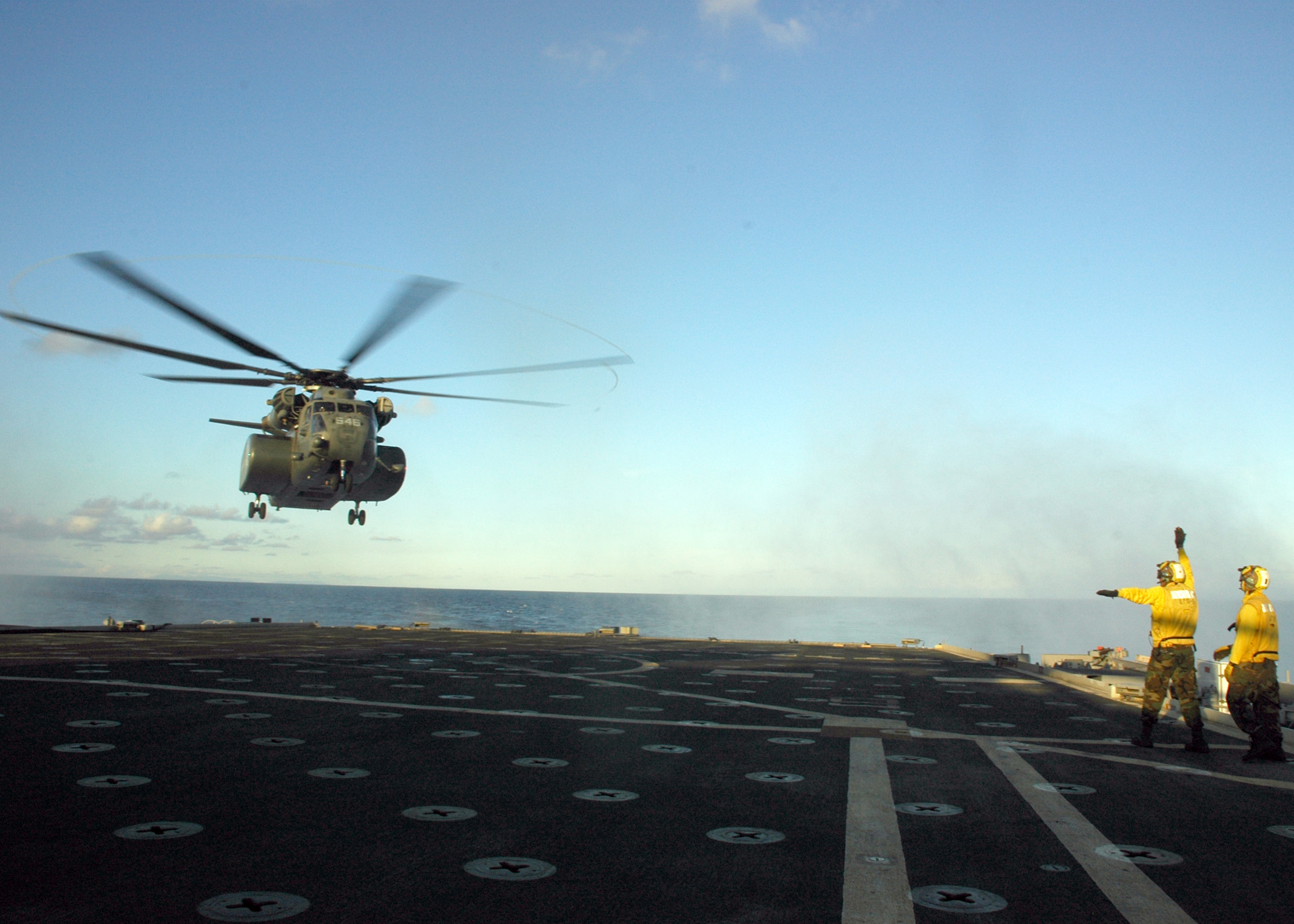 PHILIPPINE SEA (Aug. 17, 2009) Aviation Electrician's Mate 3rd Class Kyle R. McCarty, left, and Aviation Boatswain's Mate 3rd Class Kevin A. Bourne direct an MH-53E Sea Dragon helicopter assigned to Helicopter Mine Countermeasures Squadron (HM) 14 to a landing aboard the amphibious transport dock ship USS Denver (LPD 9). Denver is conducting humanitarian operations off the coast of Taiwan to provide assistance in the wake of Typhoon Morakot. (U.S. Navy photo by Mass Communication Specialist 1st Class Michael Gomez/Released)